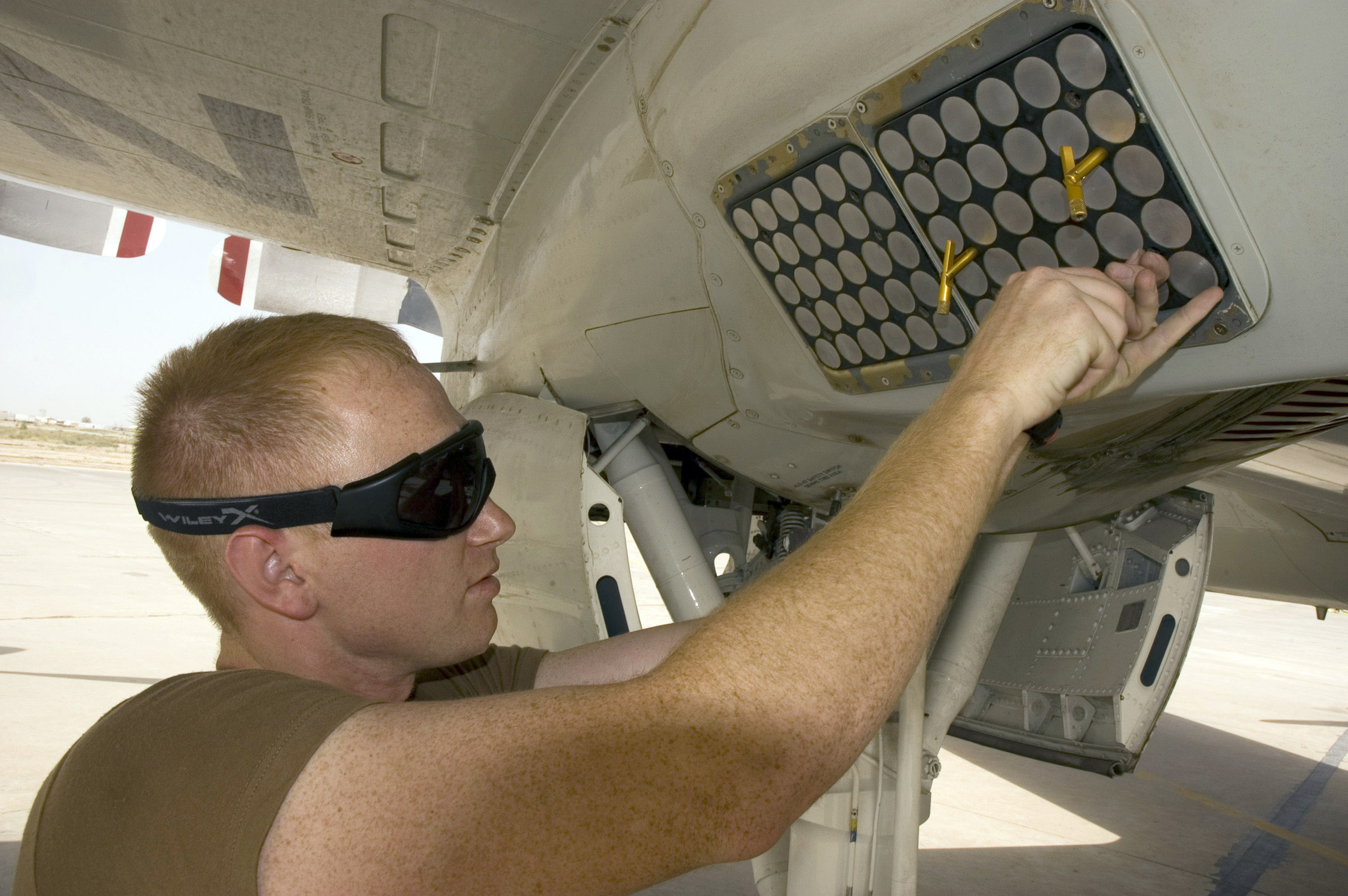 Dhi Qar Province, Iraq (June 18, 2006) - Aviation Ordnanceman 3rd Class Cary Buel installs a MJU-49/B Decoy Flare bucket into the ALE-47 Counter Measure Dispensing system on a P-3C Orion assigned to Patrol Squadron Nine (VP-9). The Counter Measure Dispensing system is vital to the survivability of the P-3C by enabling the crew to dispense chaff and flare in defense of enemy fire. VP-9 is currently on deployment to both 5th and 7th fleet areas of operation, supporting reconnaissance and maritime patrol operations. U.S. Navy photo by Mass Communication Specialist 1st Class Eric J. Benson (RELEASED)